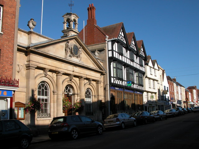 The Town Hall, Tewkesbury. The half-timbered building next door is Lloyds Bank